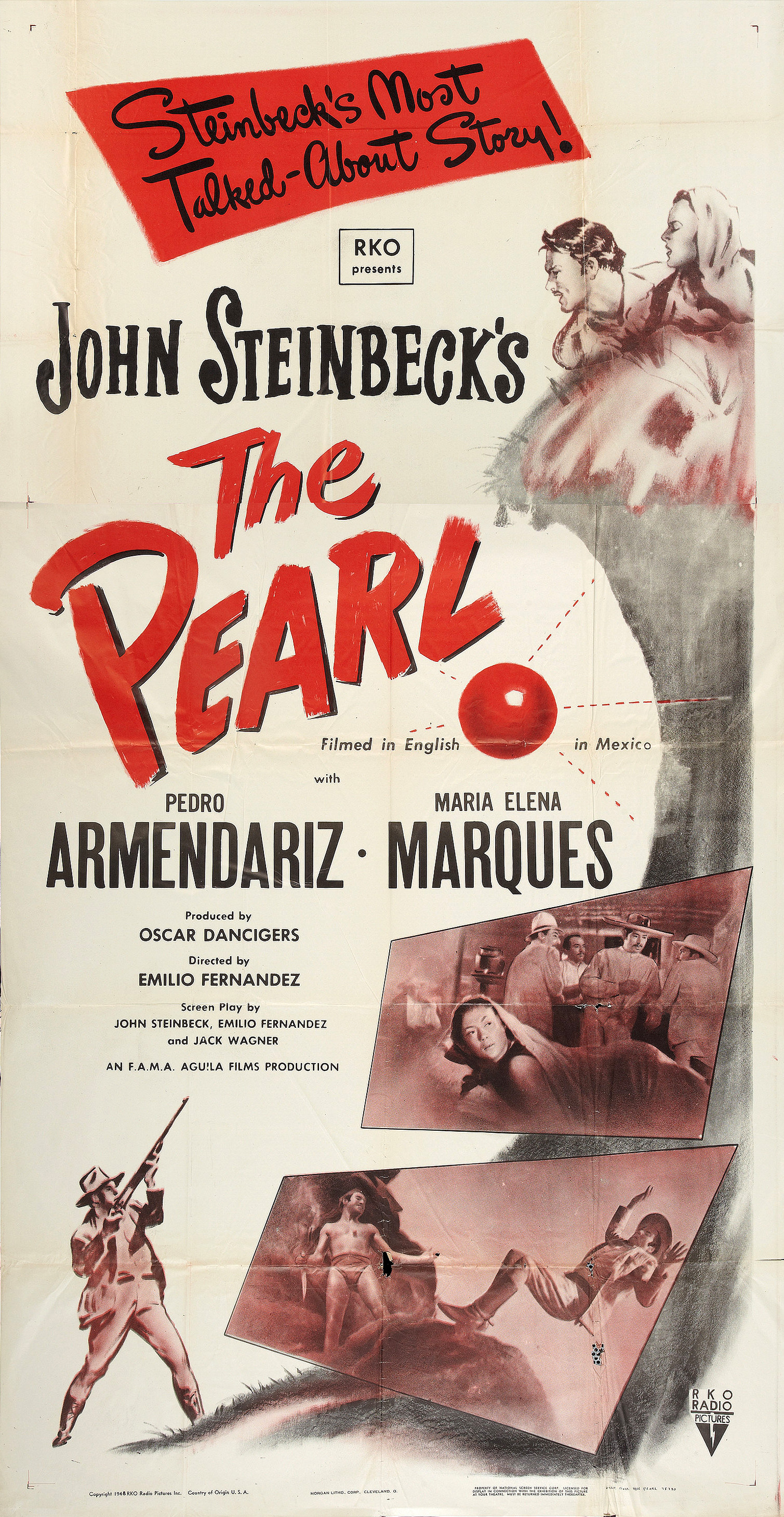 Theatrical poster for the U.S. release of the 1948 film The Pearl, based on John Steinbeck's 1947 novella of the same name. La perla, a Spanish-language version of the film produced simultaneously by the same cast and crew, premiered in Mexico in 1947. The poster is a "three-sheet" size: 41 in. × 81 in., or approx. 104 cm × 206 cm.